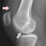 Here we see a radiograph (top image) with a deep lateral femoral notch (gray arrow) and an effusion (pink arrow). The bottom image is a fluid-sensitive MR sequence showing an osteochondral defect along the lateral femoral condyle (gray arrow) and abnormal signal in the posterolateral tibial plateau ("kissing contusions"). This pediatric patient did not have an anterior cruciate ligament tear.